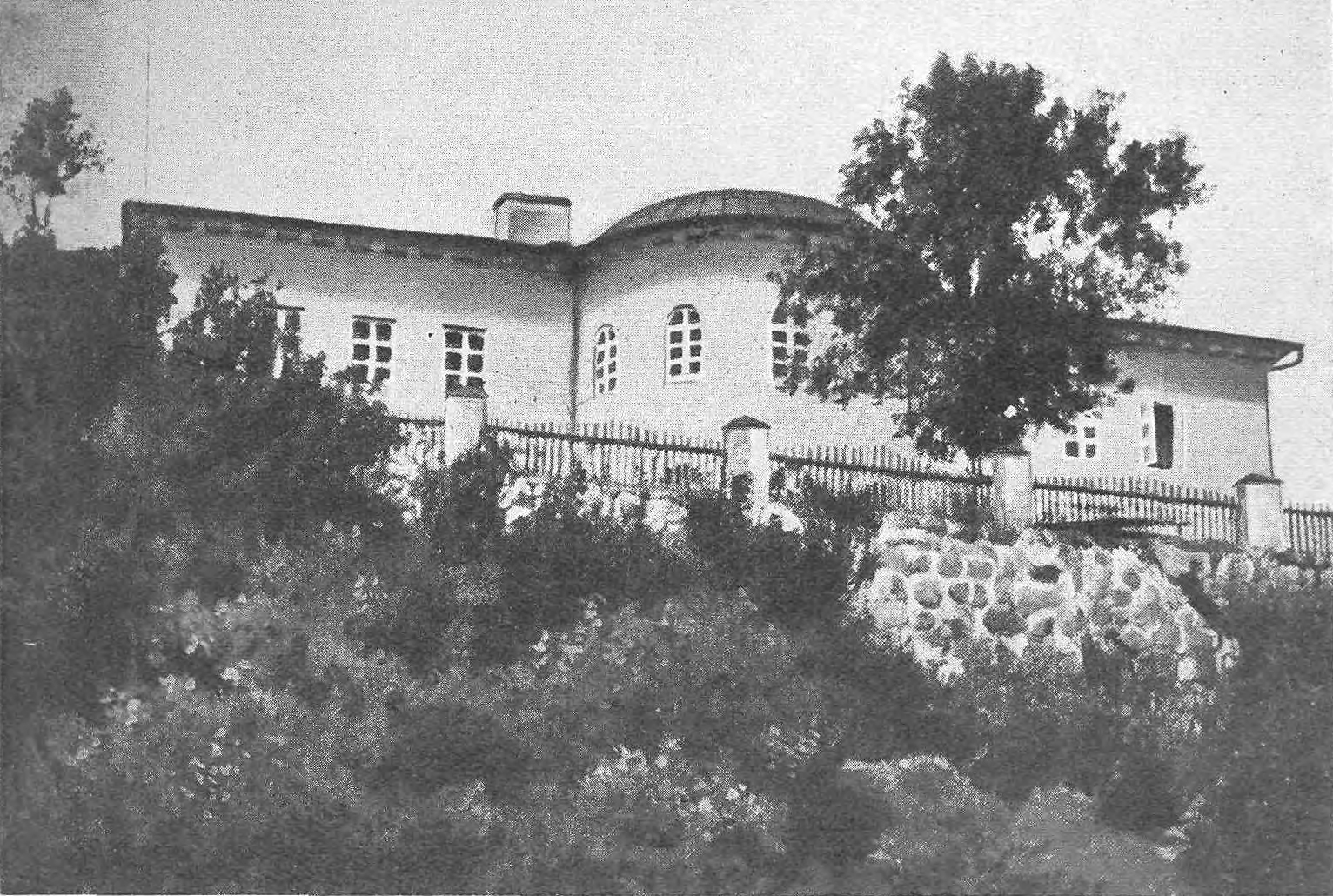 Potocki Manor in Biarezań, Belarus